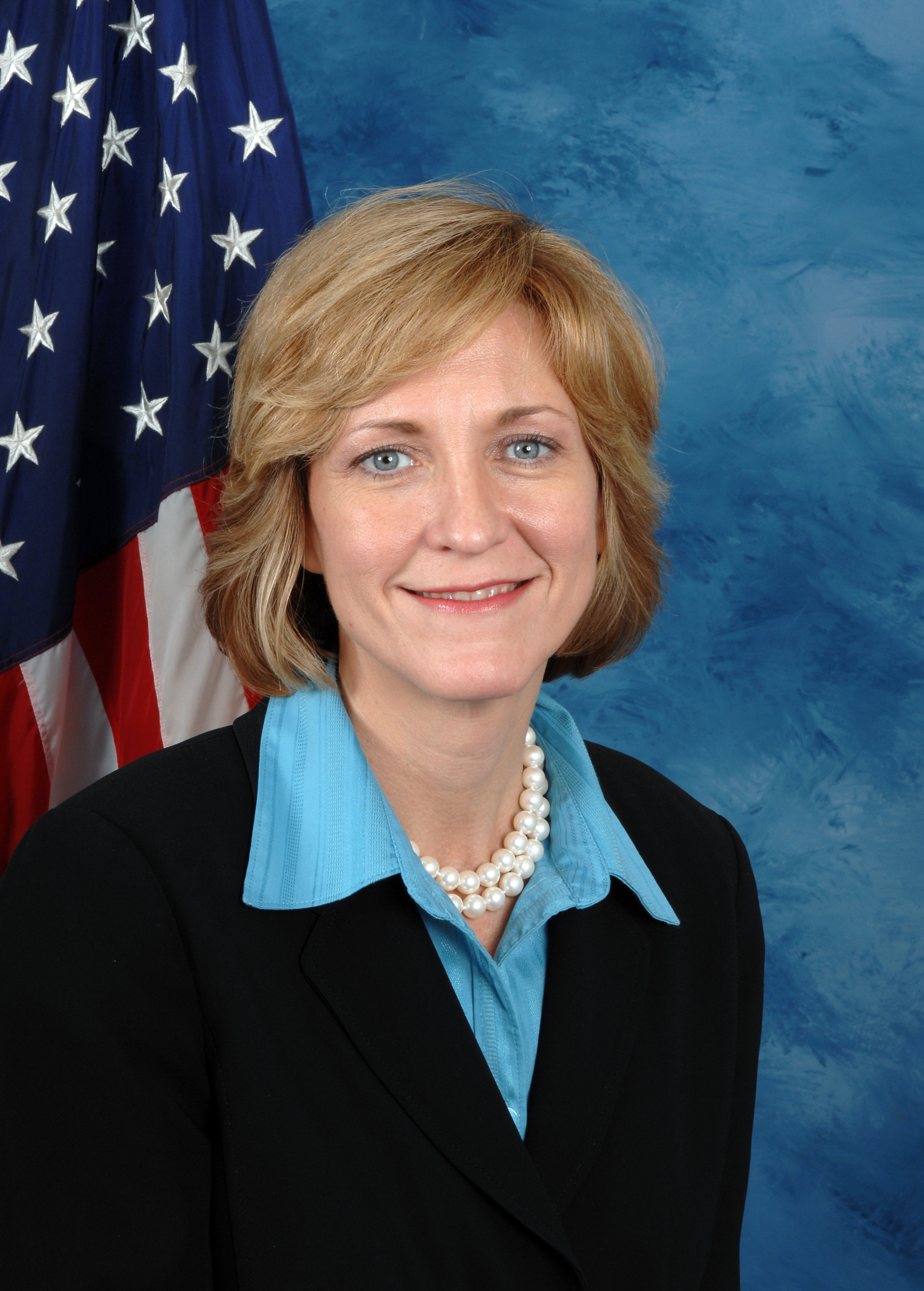 Betty Sutton, member of the United States House of Representatives.